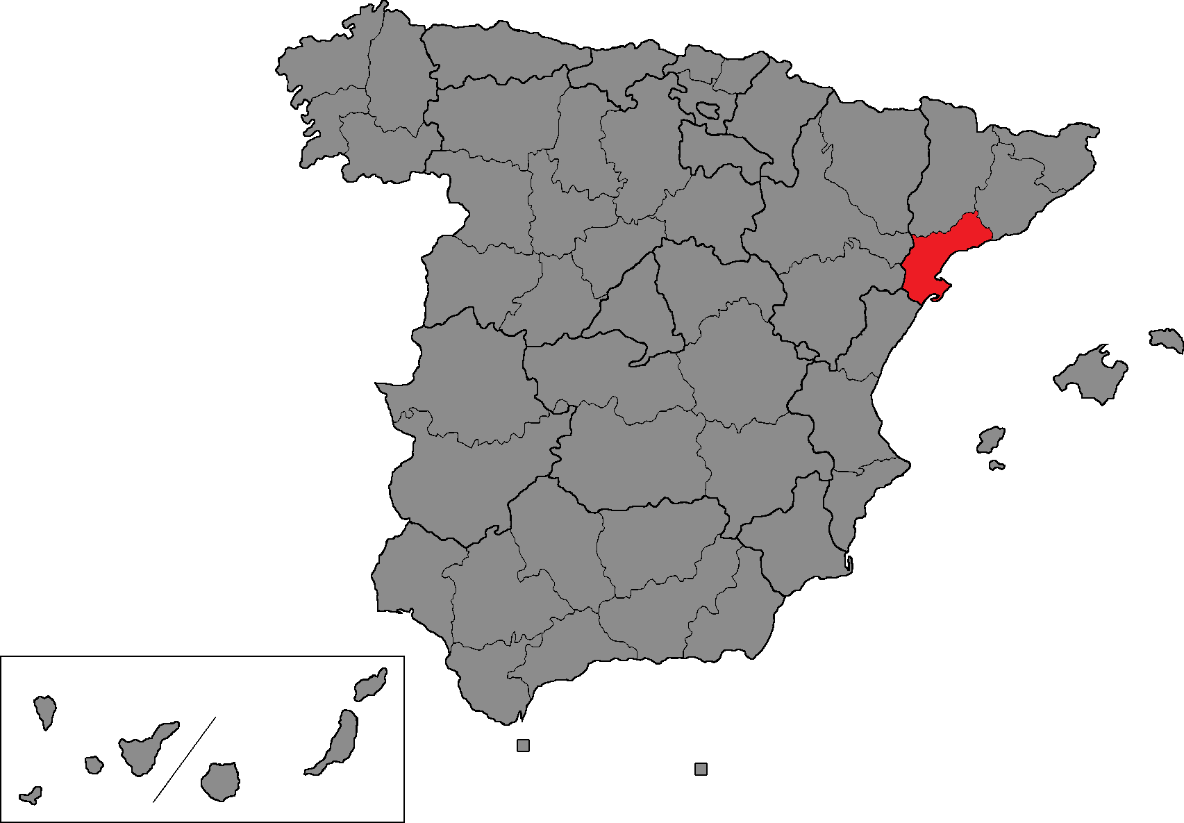 Spanish Congress of Deputies district of Tarragona.